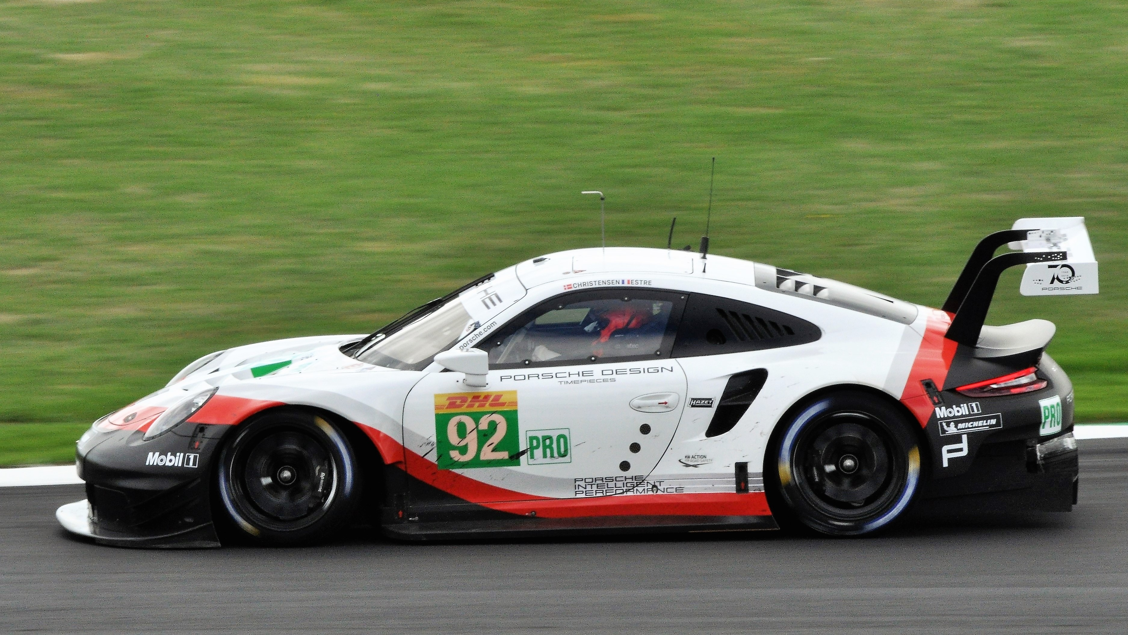 French driver Kévin Estre powers through Village corner in the number 92 works Porsche 911 RSR, during the 2018 6 Hours of Silverstone race. Estre and his co-driver, Michael Christensen, finished third in the LMGTE Pro class.